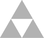 The Legend of Zelda icon